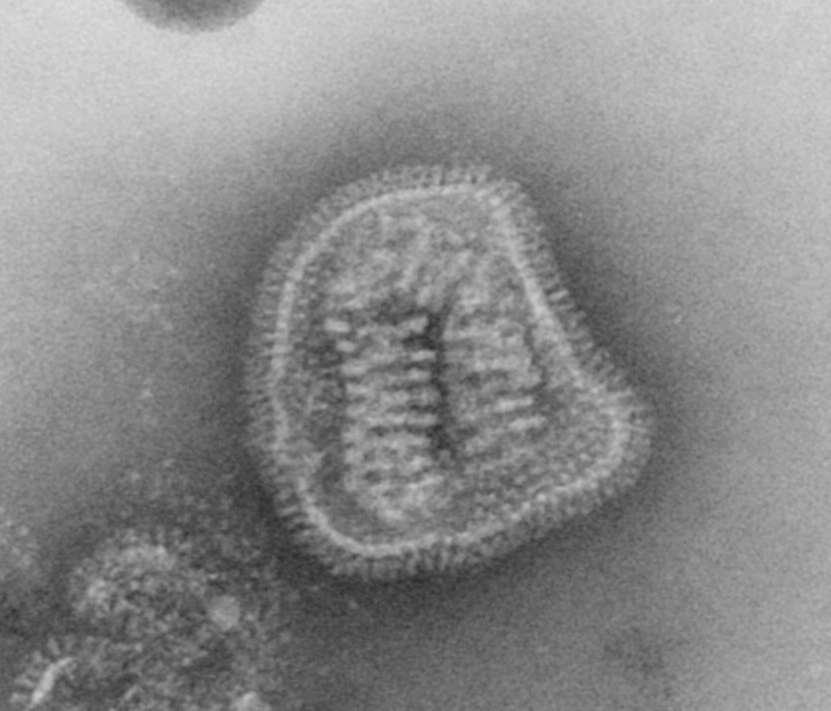 This negative-stained transmission electron micrograph (TEM) depicts the ultrastructural details of an influenza virus particle, or “virion”. A member of the taxonomic family Orthomyxoviridae, the influenza virus is a single-stranded RNA organism The flu is a contagious respiratory illness caused by influenza viruses. It can cause mild to severe illness, and at times can lead to death. The best way to prevent this illness is by getting a flu vaccination each fall. Every year in the United States, on average: - 5% to 20% of the population gets the flu - more than 200,000 people are hospitalized from flu complications, and - about 36,000 people die from flu. Some people, such as older people, young children, and people with certain health conditions, are at high risk for serious flu complications. See PHIL 10073 for a colorized version of this image. Influenza A and B are the two types of influenza viruses that cause epidemic human disease. Influenza A viruses are further categorized into subtypes on the basis of two surface antigens: hemagglutinin and neuraminidase. Influenza B viruses are not categorized into subtypes. Since 1977, influenza A (H1N1) viruses, influenza A (H3N2) viruses, and influenza B viruses have been in global circulation. In 2001, influenza A (H1N2) viruses that probably emerged after genetic reassortment between human A (H3N2) and A (H1N1) viruses began circulating widely. Both influenza A and B viruses are further separated into groups on the basis of antigenic characteristics. New influenza virus variants result from frequent antigenic change (i.e., antigenic drift) resulting from point mutations that occur during viral replication. Influenza B viruses undergo antigenic drift less rapidly than influenza A viruses.